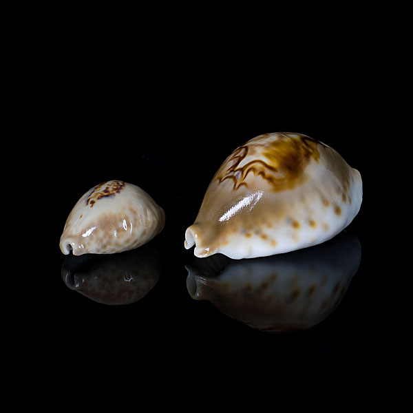 Barycypraea Fultoni & Teulerei